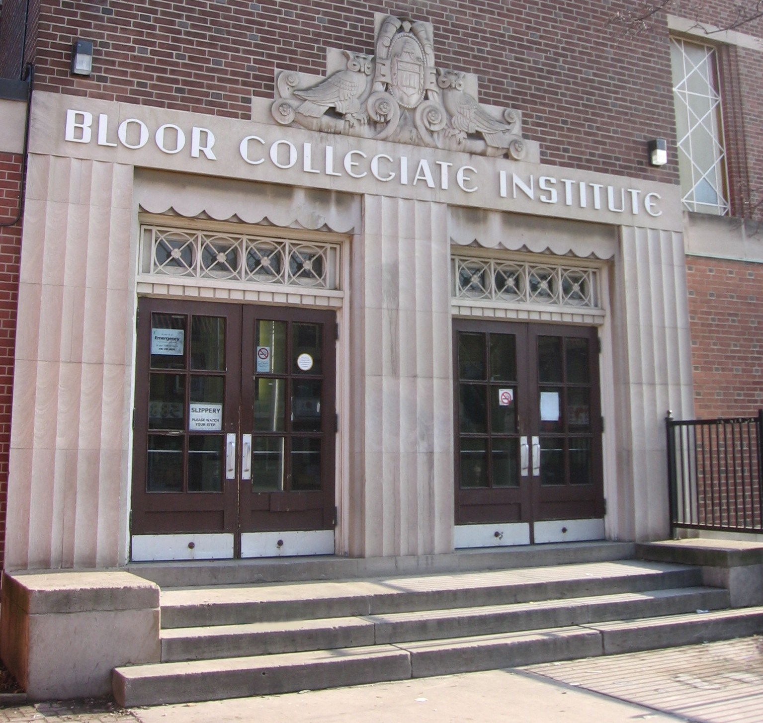 Front steps of BCI